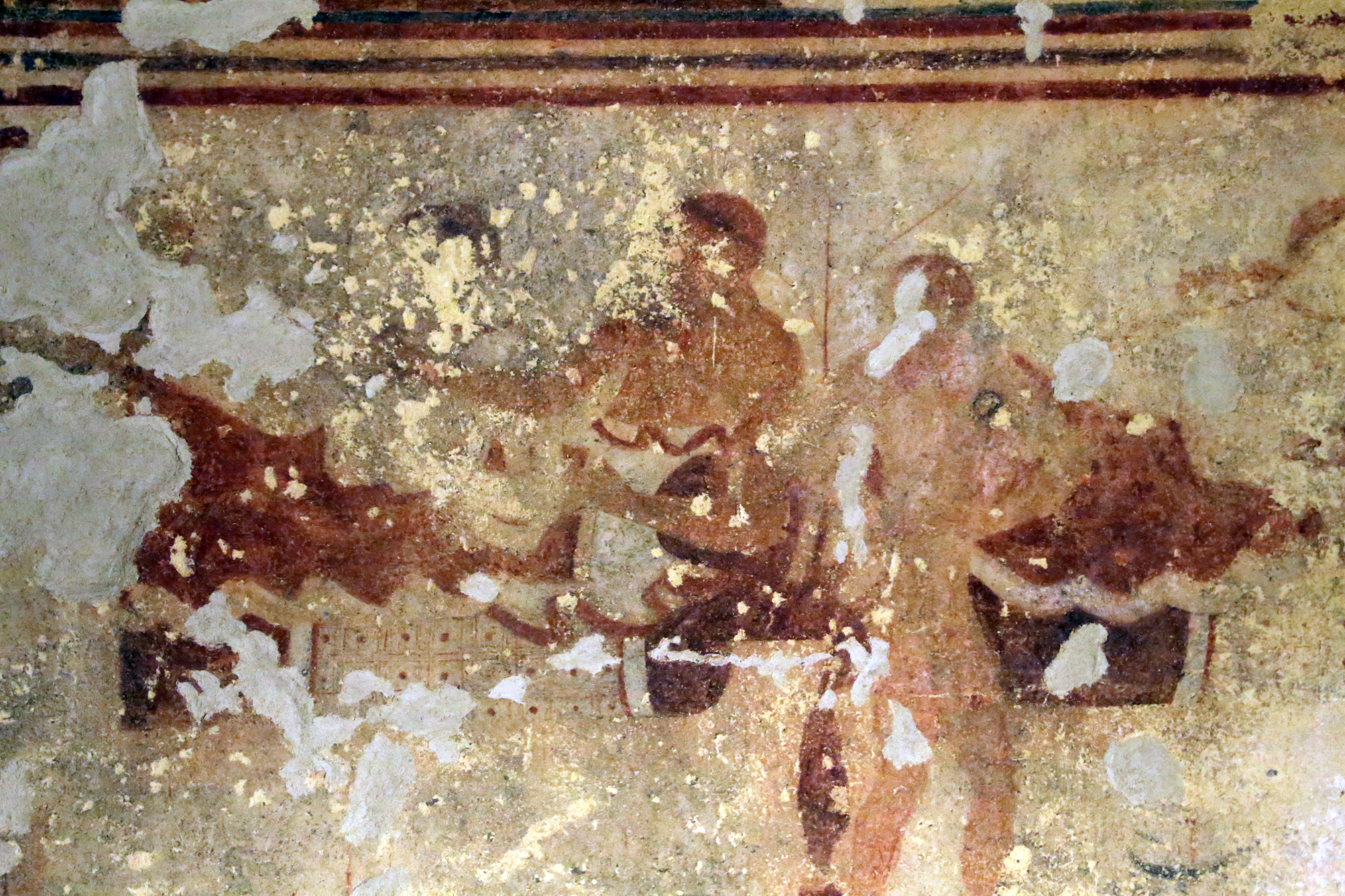 Necropoli dei Monterozzi (Tarquinia)